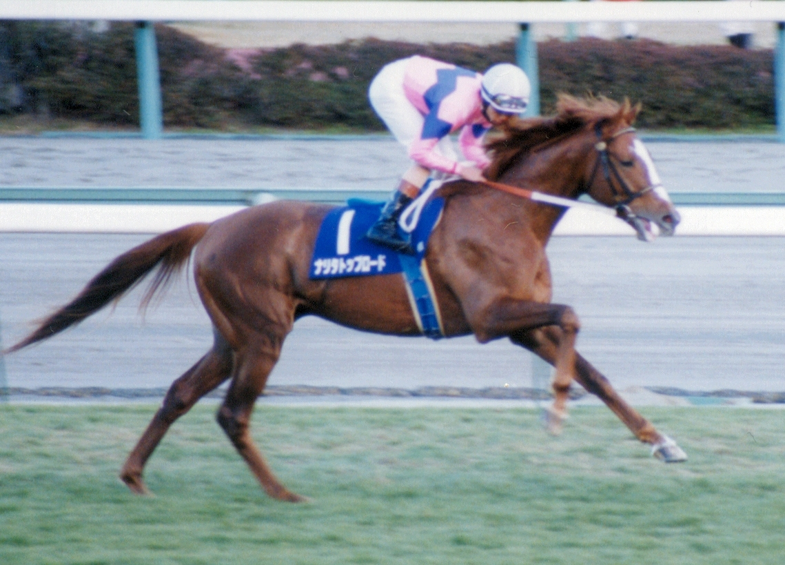 Narita Top Road (horse)